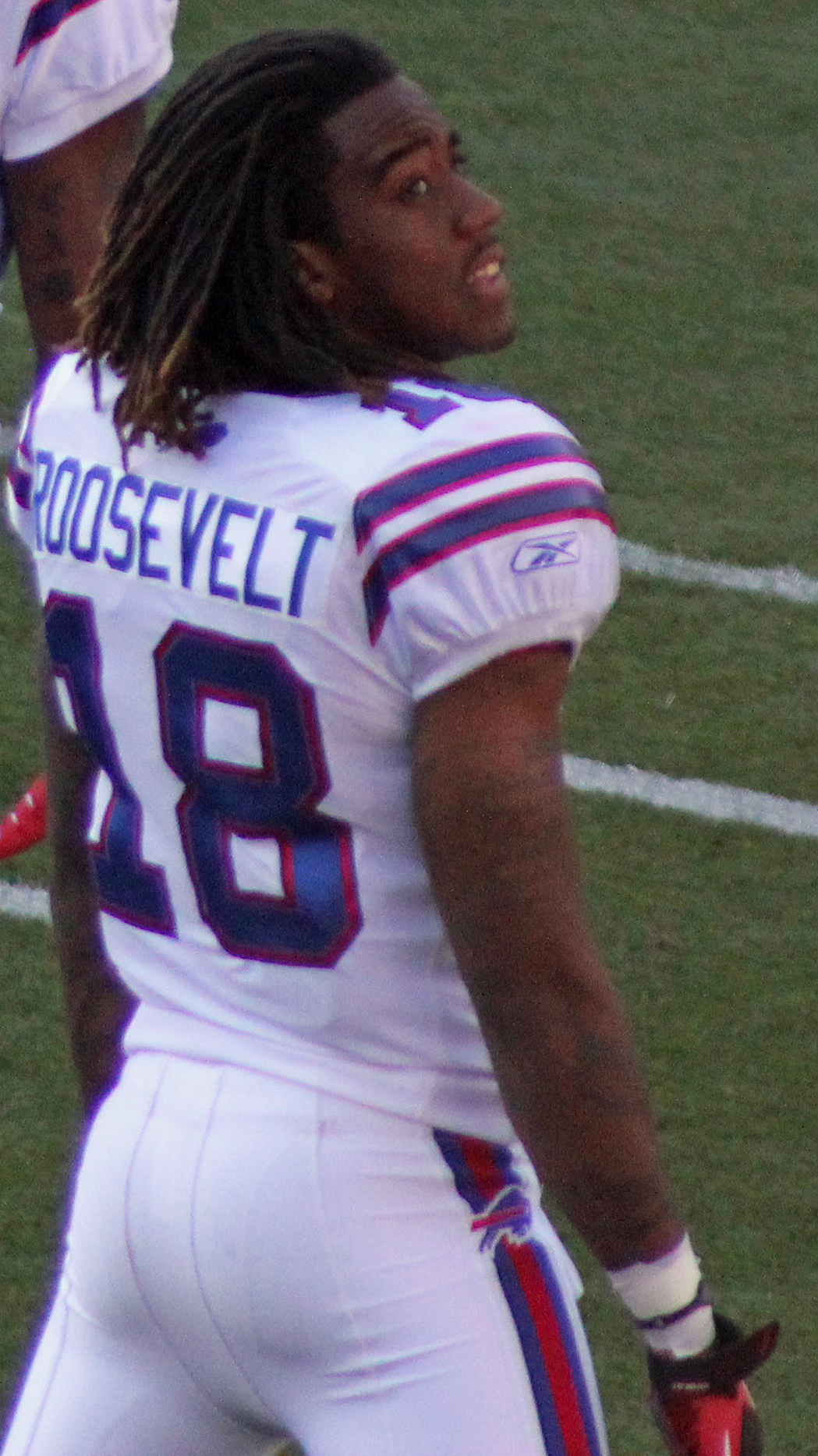 Naaman Roosevelt, a player on the National Football League.